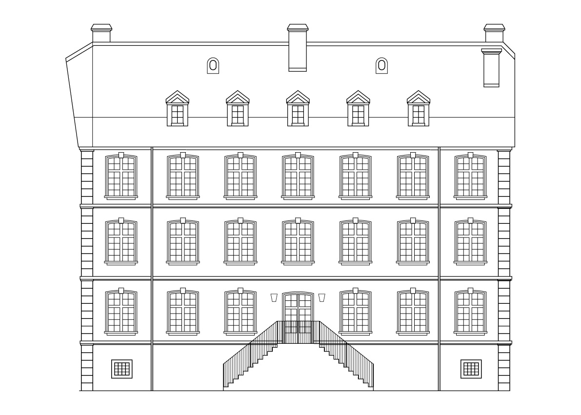 Elevation of the north façade over the Rhine river of the Palais Mayenfisch in Kaiserstuhl, Aargau, built in 1765.